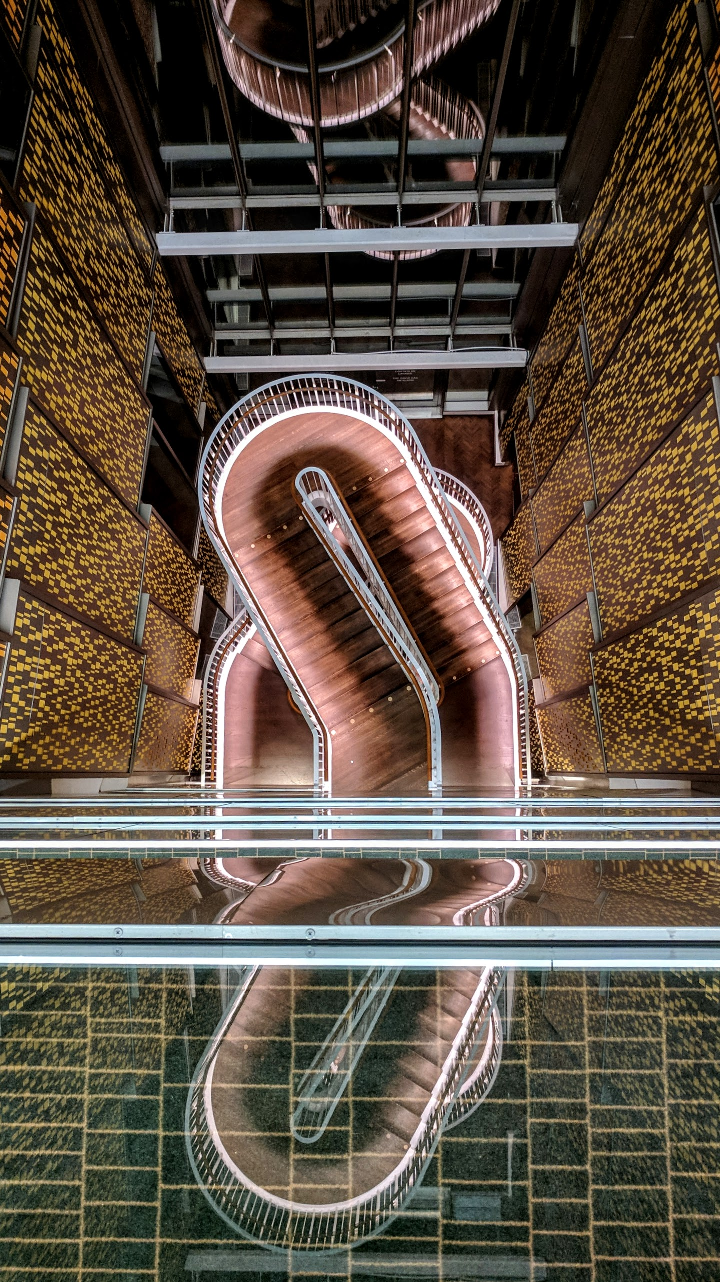 Stairway and reflections, from above, at the Scandic Continental Hotel, Stockholm